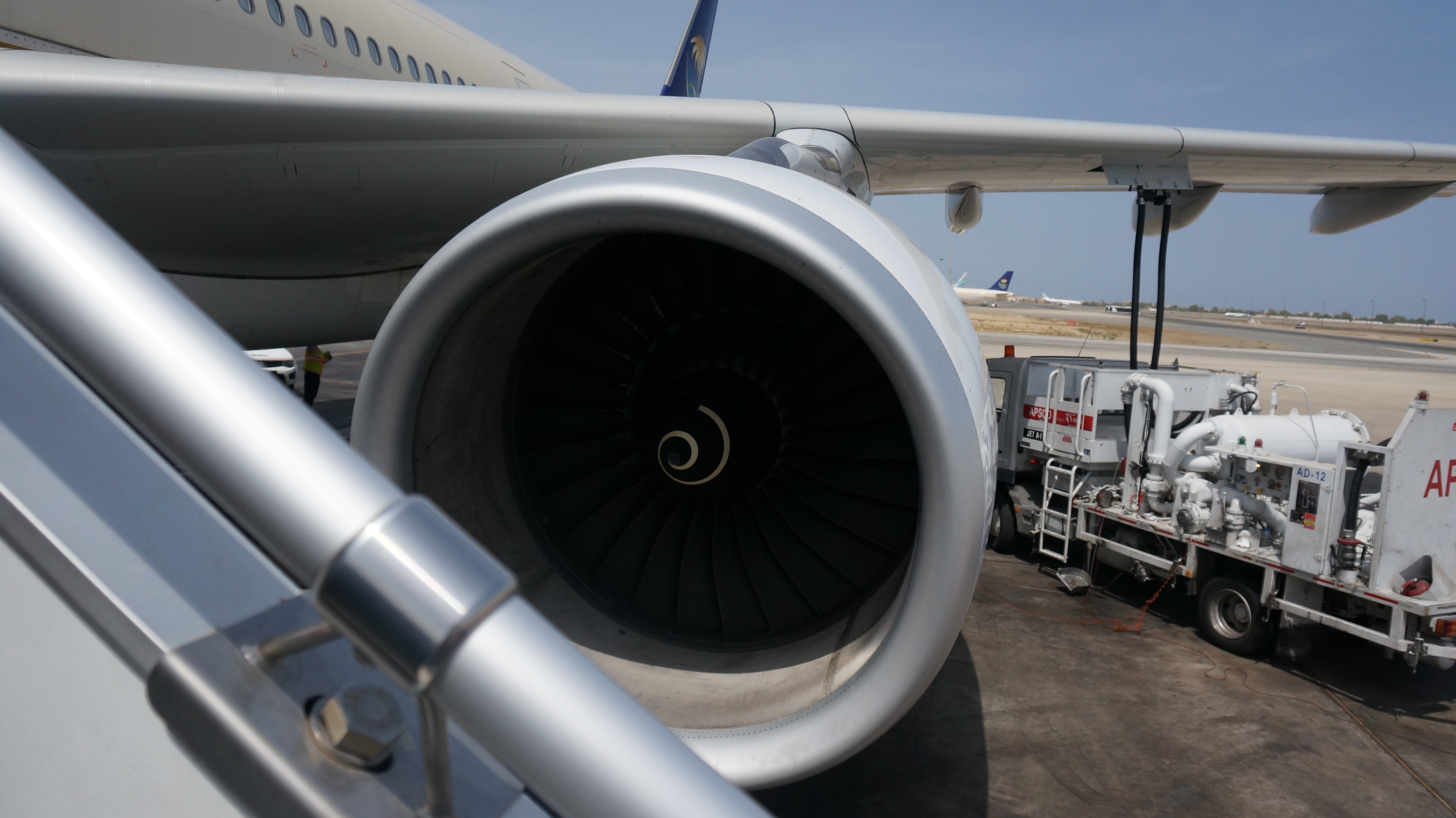 Rolls Royce Trent 700 mounted on a Saudia Airbus A330-300